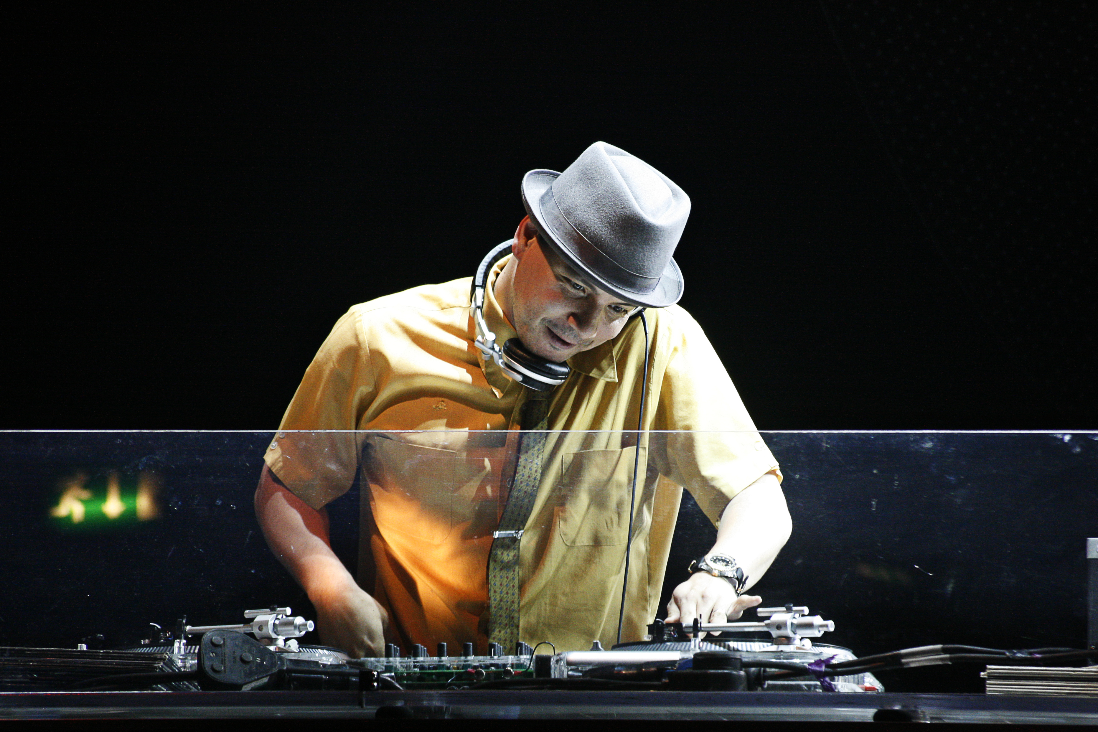 Mix Master Mike at Brixton Academy - 05/09/07